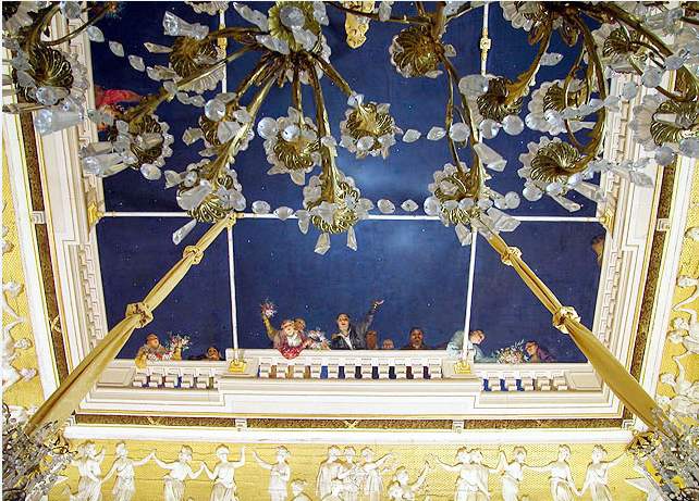 The Stage of Life, by Ignazio Perricci, on the ceiling of the hall of mirrors in the Castello di Corigliano Calabro.